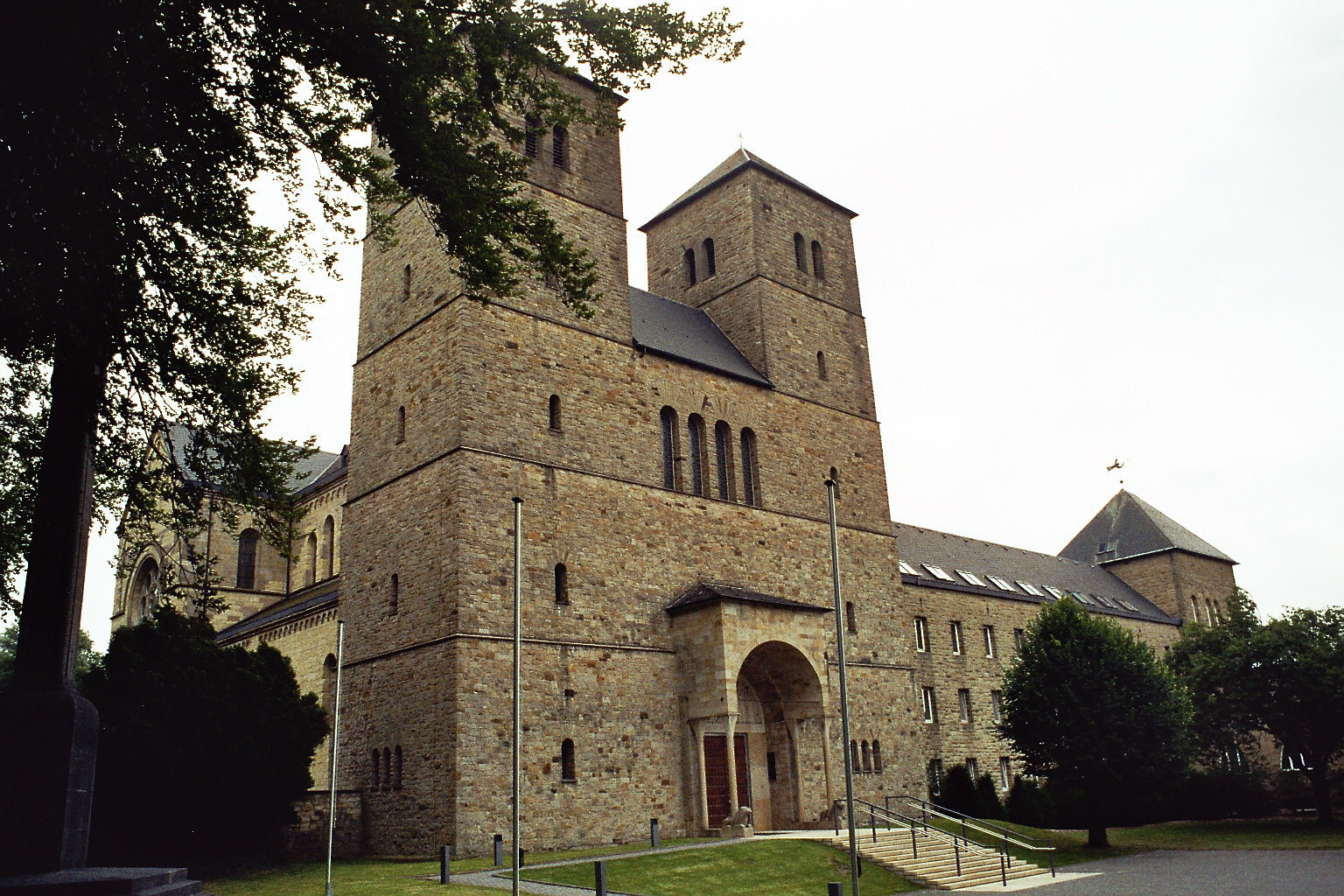 Benedictine monasters (Abtei) Gerleve in Billerbeck, Nordrhein-Westfalen, Germany, towers of church